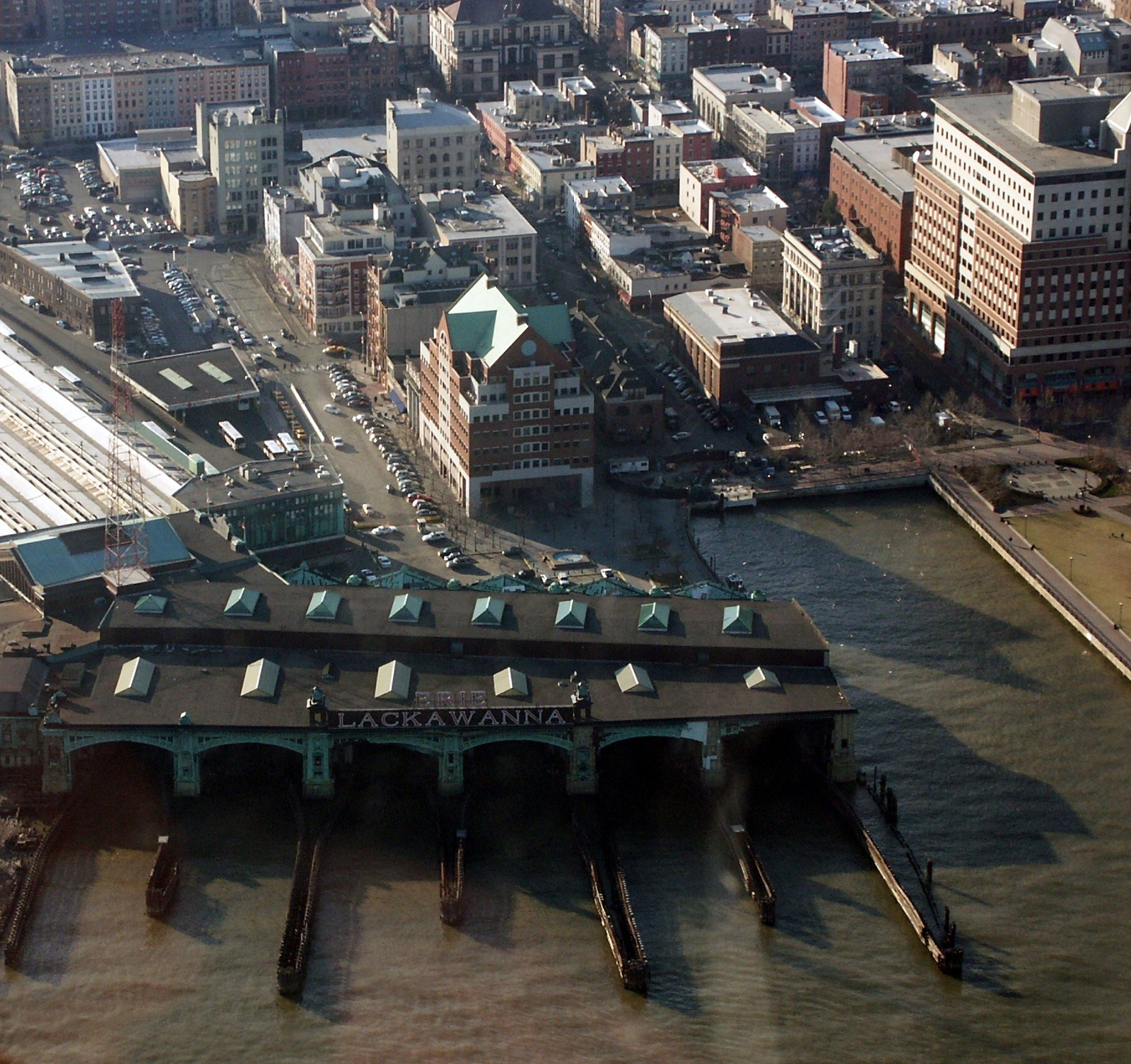 Hoboken, New Jersey, United States.